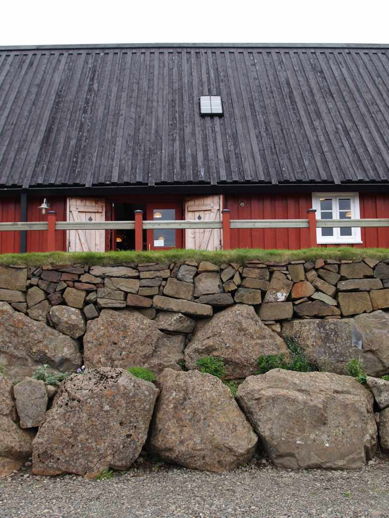 Langabúð museum building in Djúpivogur, East Iceland image by varp August 2006